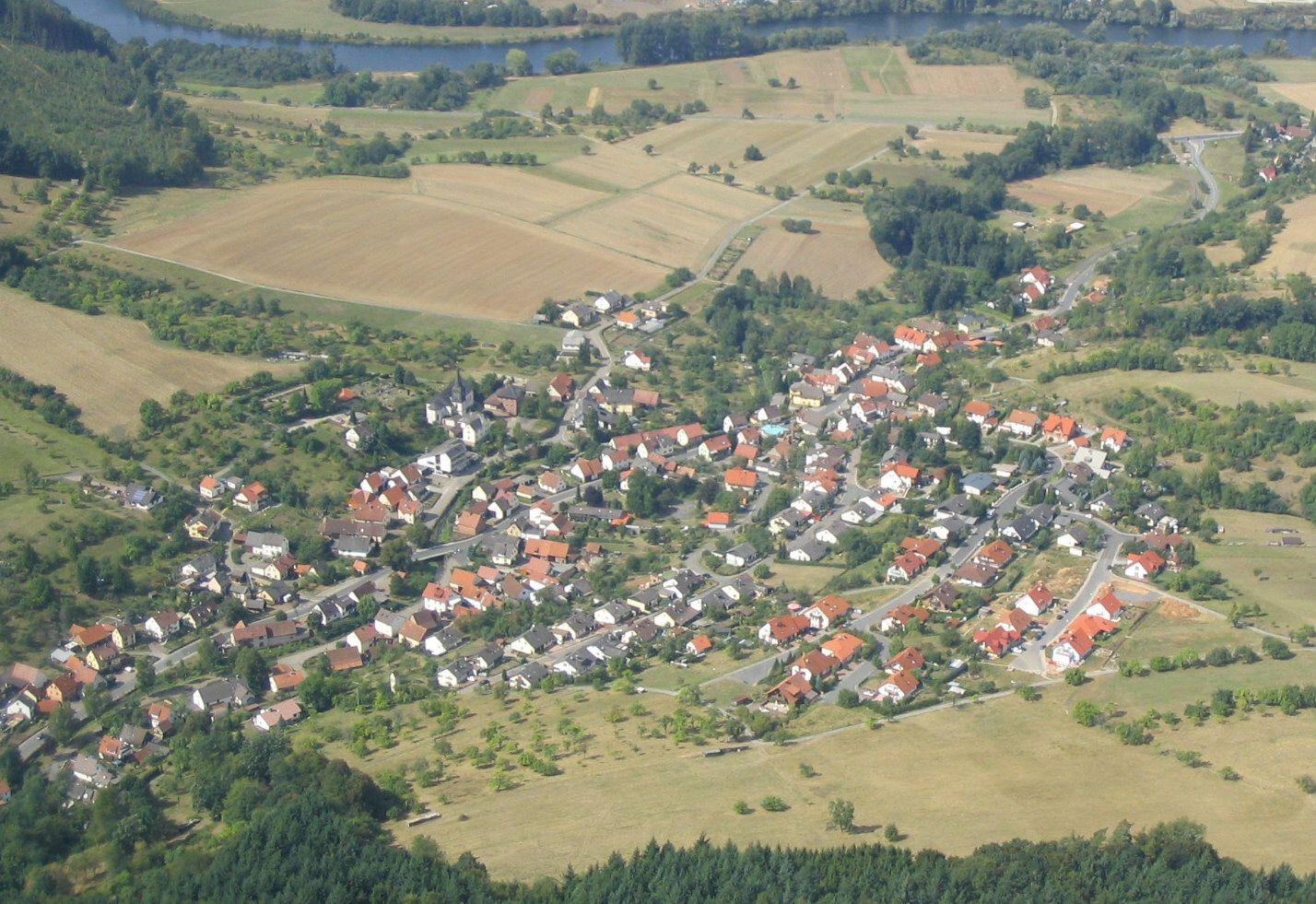 Freudenberg-Boxtal as seen from the Southeast